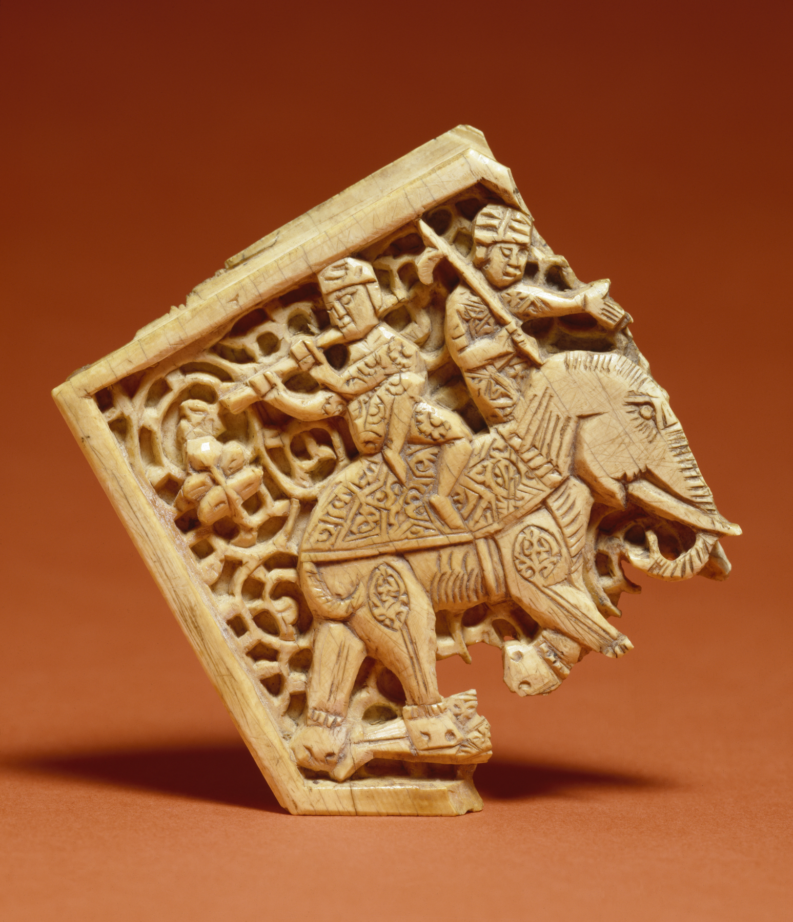 This plaque- representing two figures (one possibly a musician) riding an elephant- was made as part of the inlaid fittings for a door, chest, or other large piece of furniture.